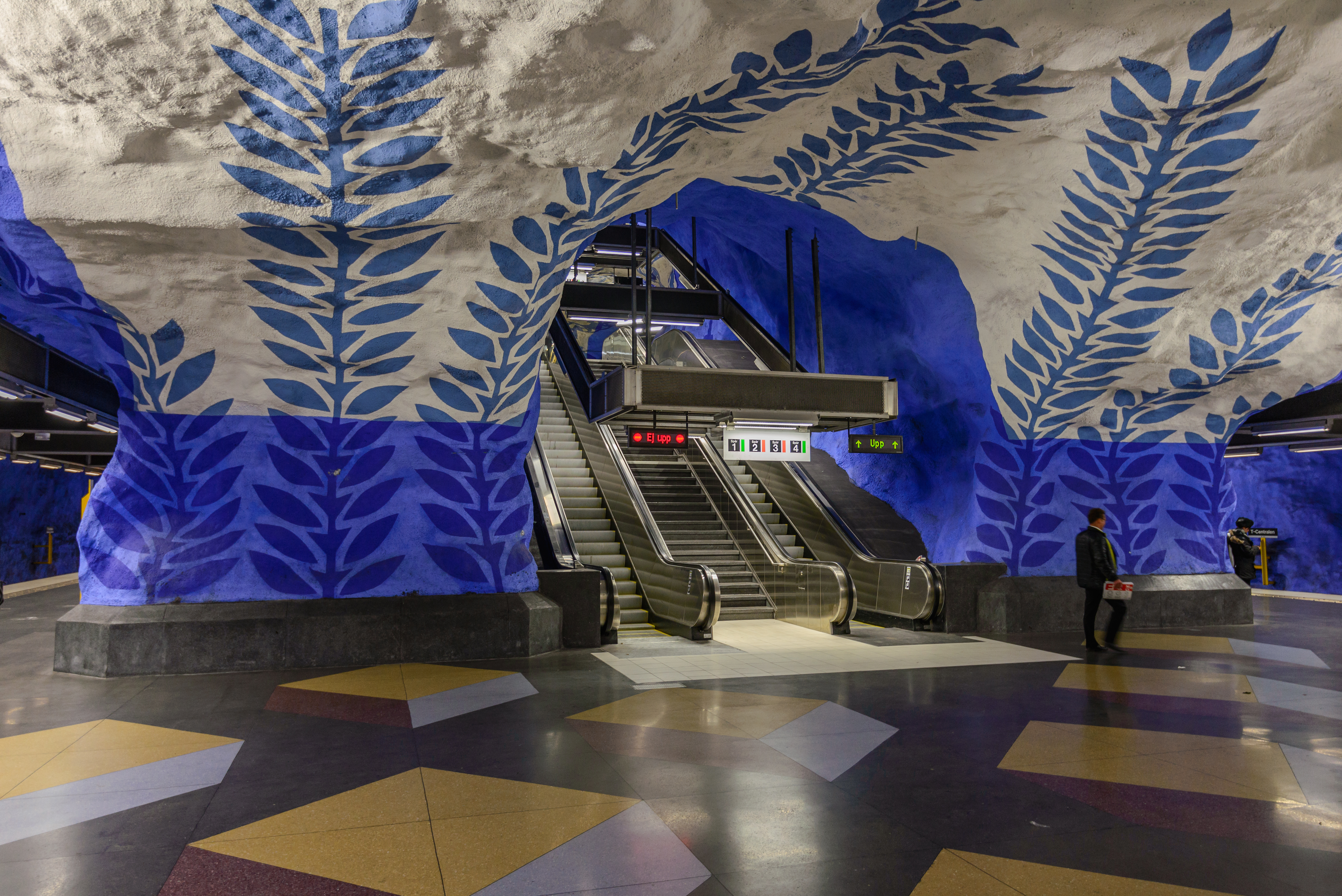 T-Centralen metro station, Stockholm.